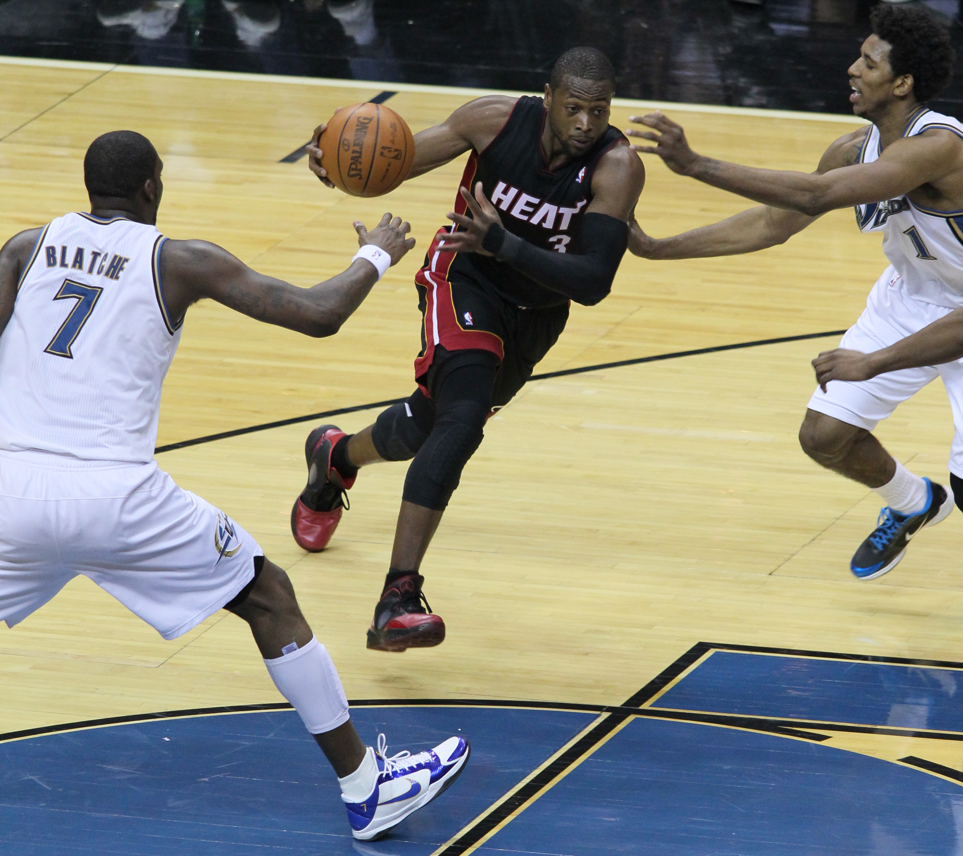 Washington Wizards v/s Miami Heat December 18, 2010